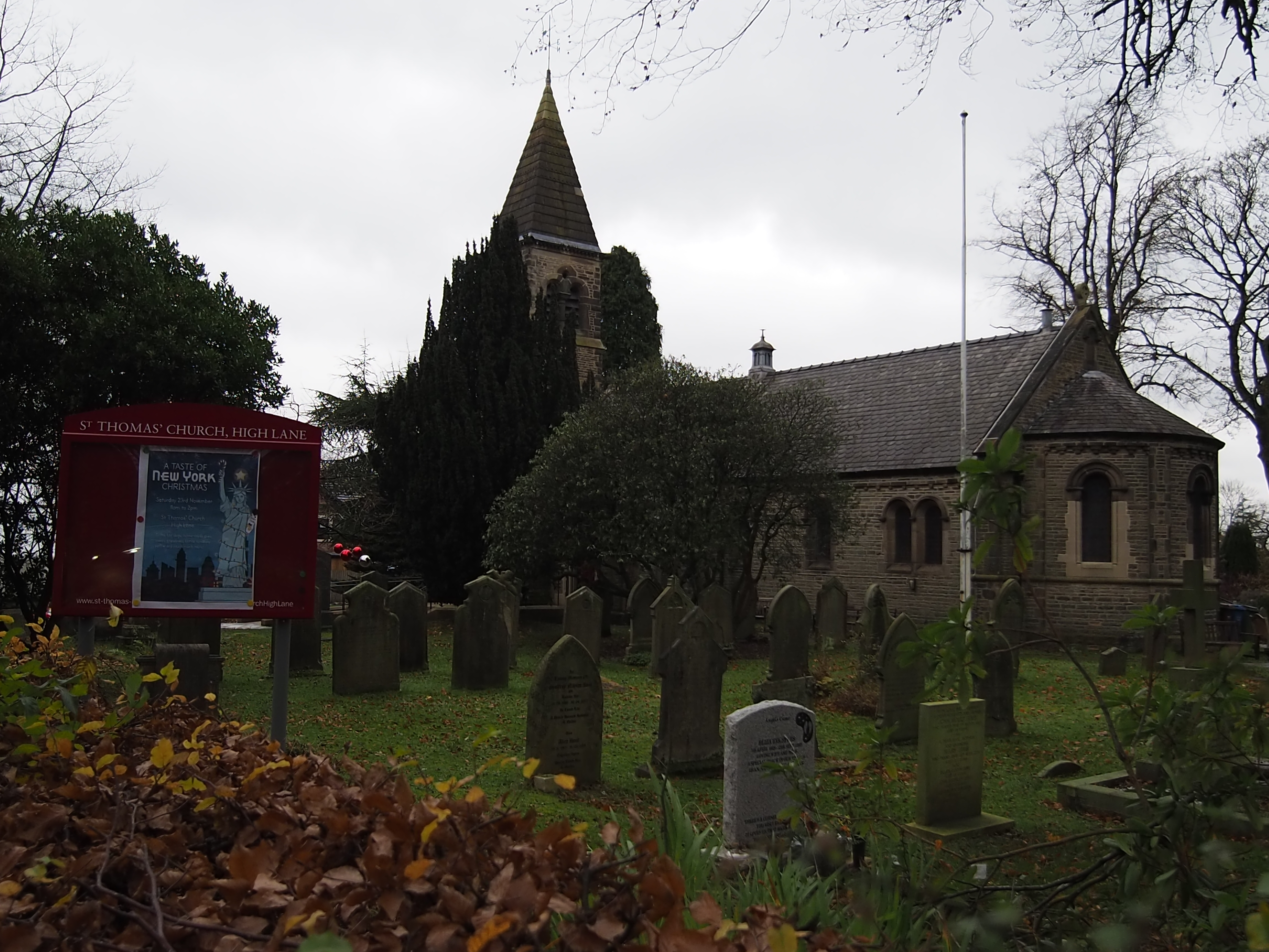 The church of St Thomas, High Lane, Cheshire, looking North West from Buxton Road